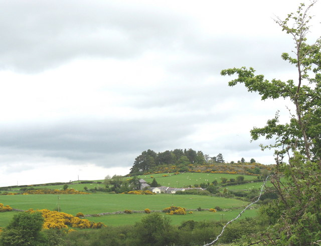 Dinas Dinorwig. An Iron Age fort at SH549653.